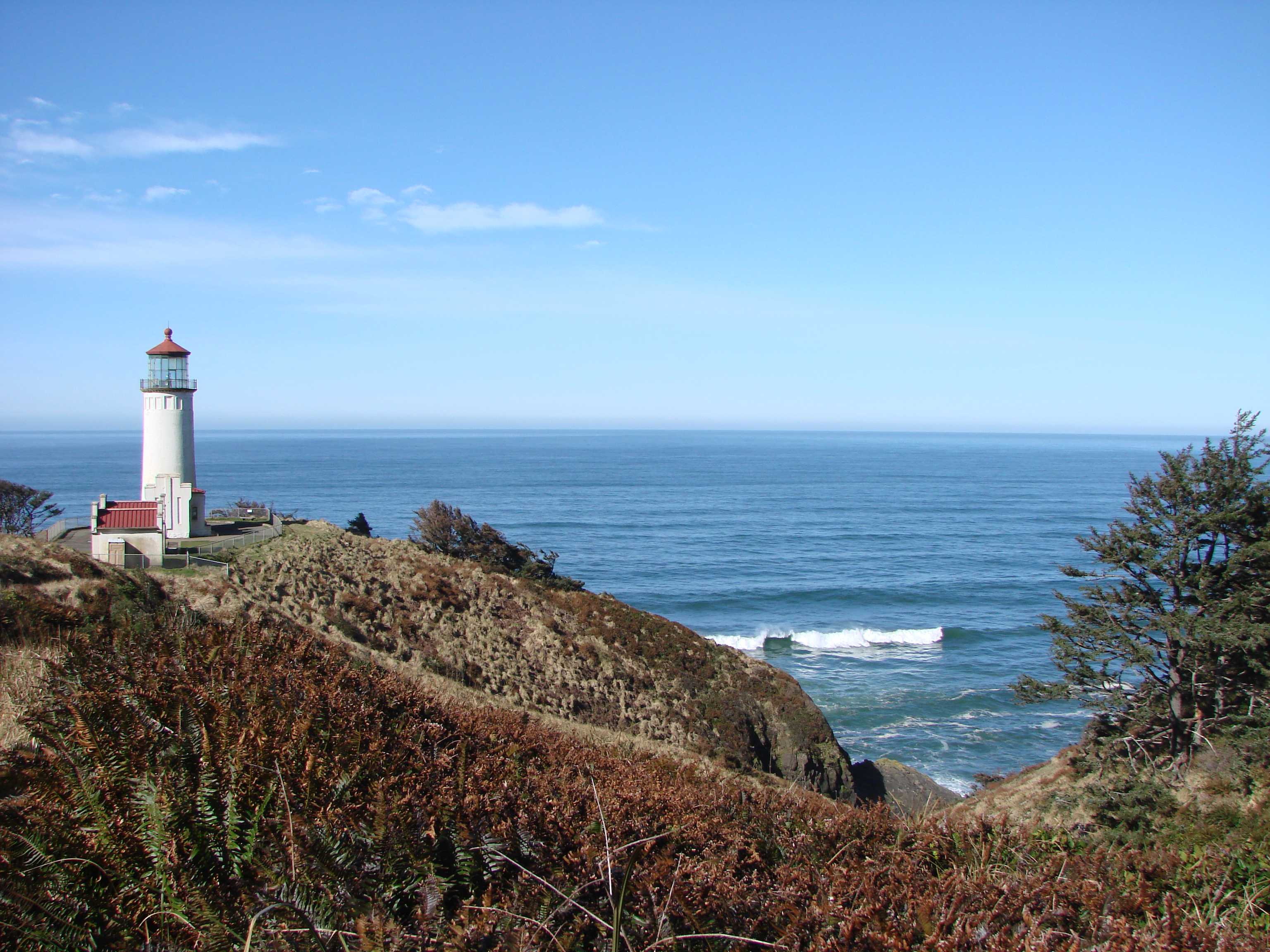 Photo of the North Head Lighthouse in Southwest Washington State, USA.